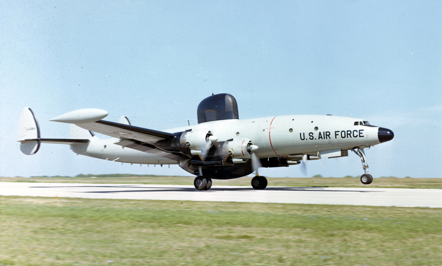 A U.S. Air Force Lockheed EC-121K "Rivet Top" (s/n 57-143184) of the 552nd Airborne Early Warning & Control Wing, based at Korat Royal Thai Air Force Base, Thailand, in 1967-68. "Rivet Top" was a modification of a EC-121 into a Airborne Tactical Air Coordination Center, where intelligence collection and command and control functions were fused on a single airframe. For this a former U.S. Navy EC-121K (BuNo 143184) was modified. "Rivet Top" operators listened in on radio calls between MiG fighters and their ground controllers.